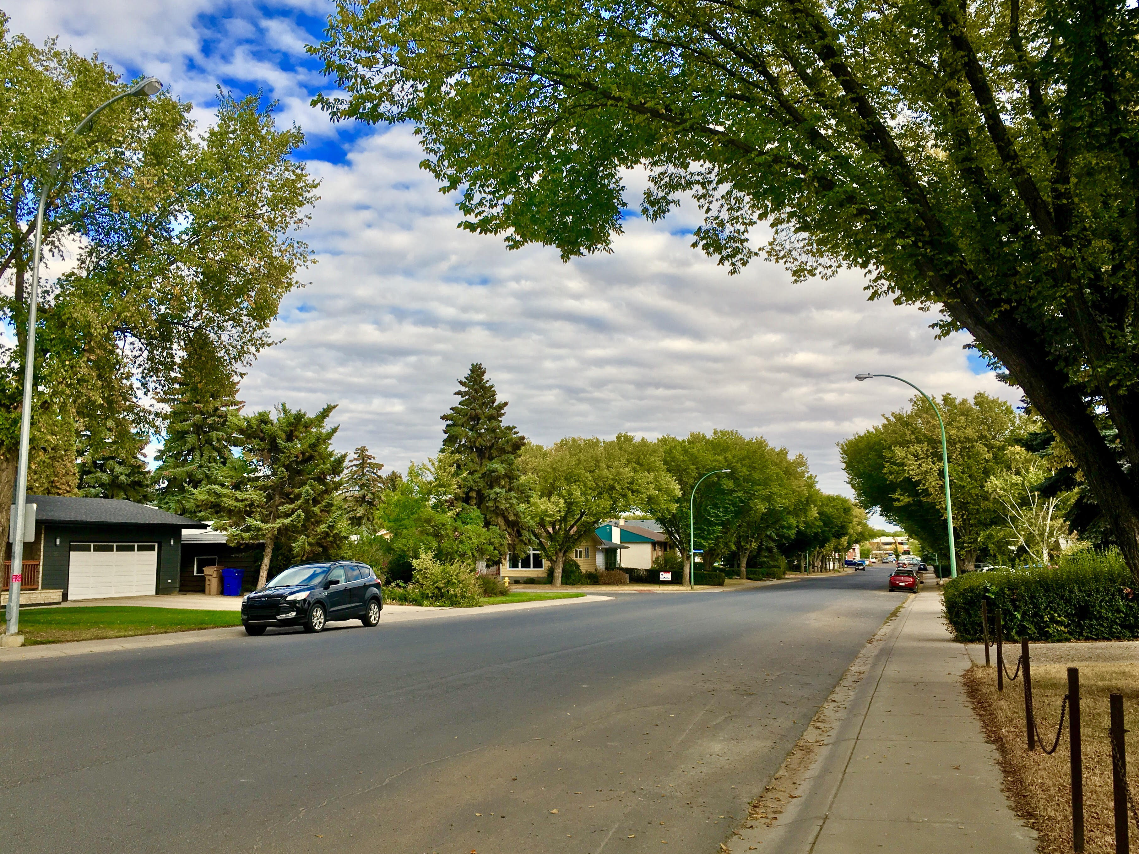 Sunset Ave, Regina, Saskatchewan